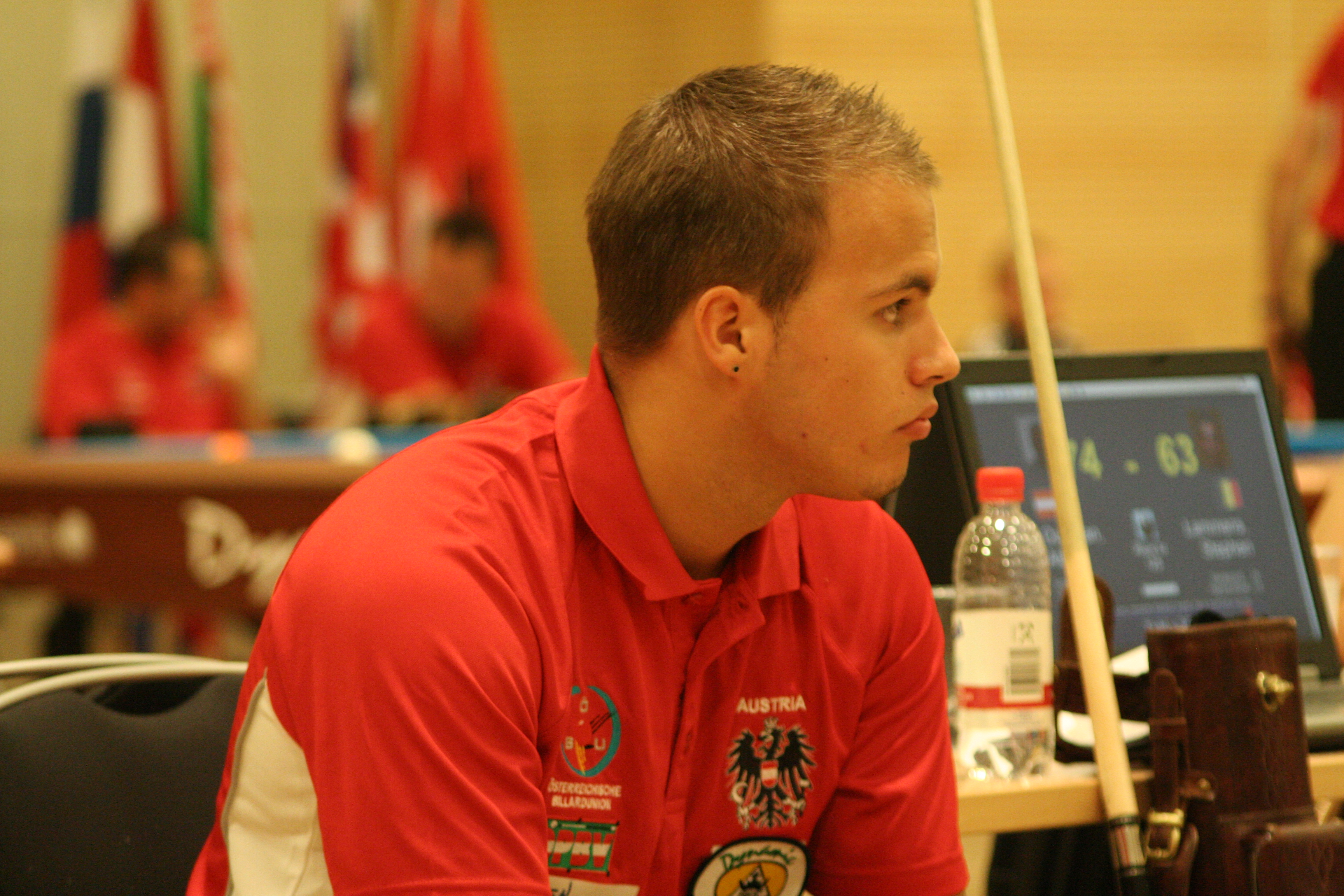 Austrian pool player Albin Ouschan at the European Pool Championship 2008 in Willingen, Germany.